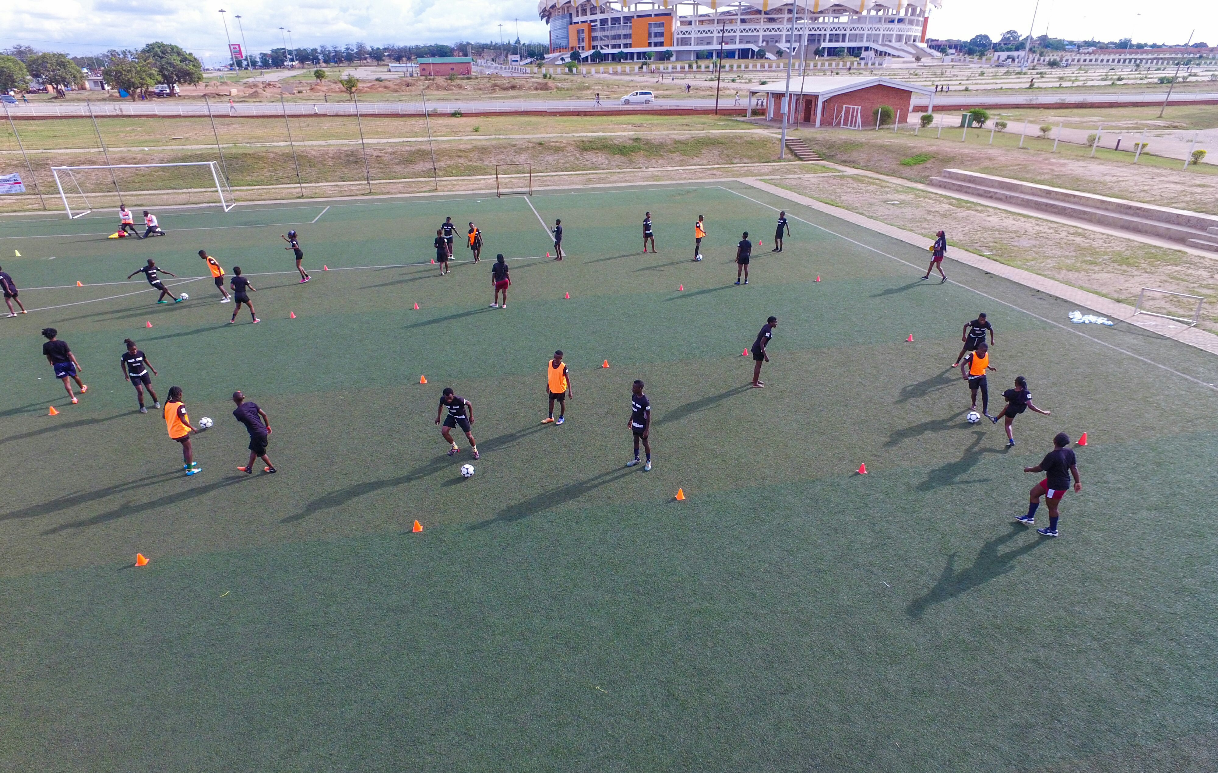 The afternoon football pitch training in preparation of the game This is an image with the theme "Play" from: Zambia